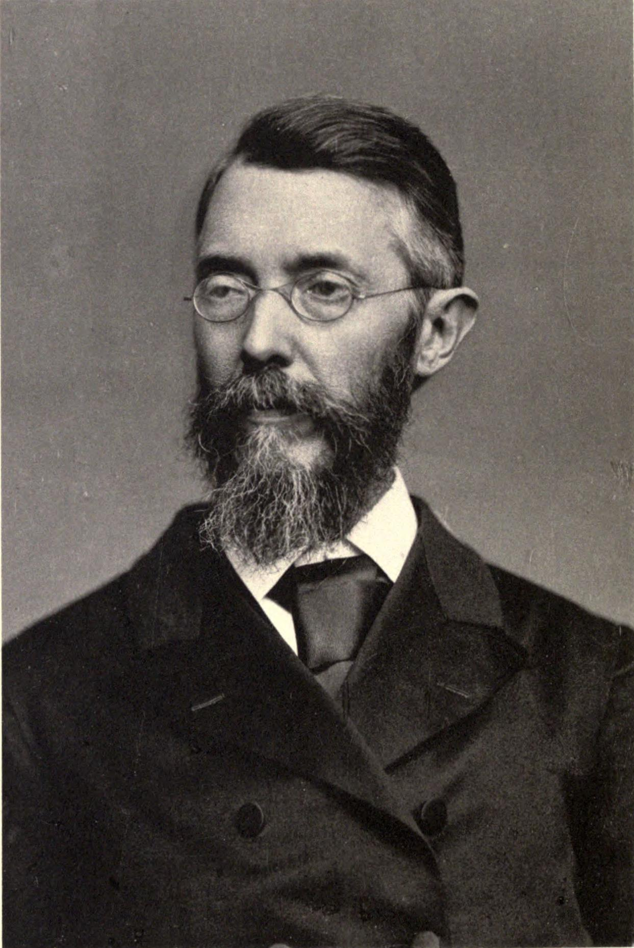 John Thomas Gulick (1832–1923) was an American missionary and naturalist. He is credited with the first modern evolutionary study.